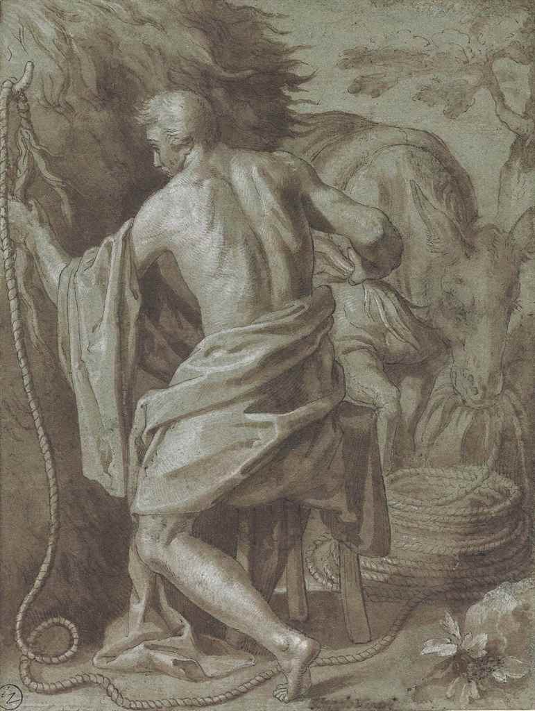 Ocnus: An allegory of the Futility of Labour